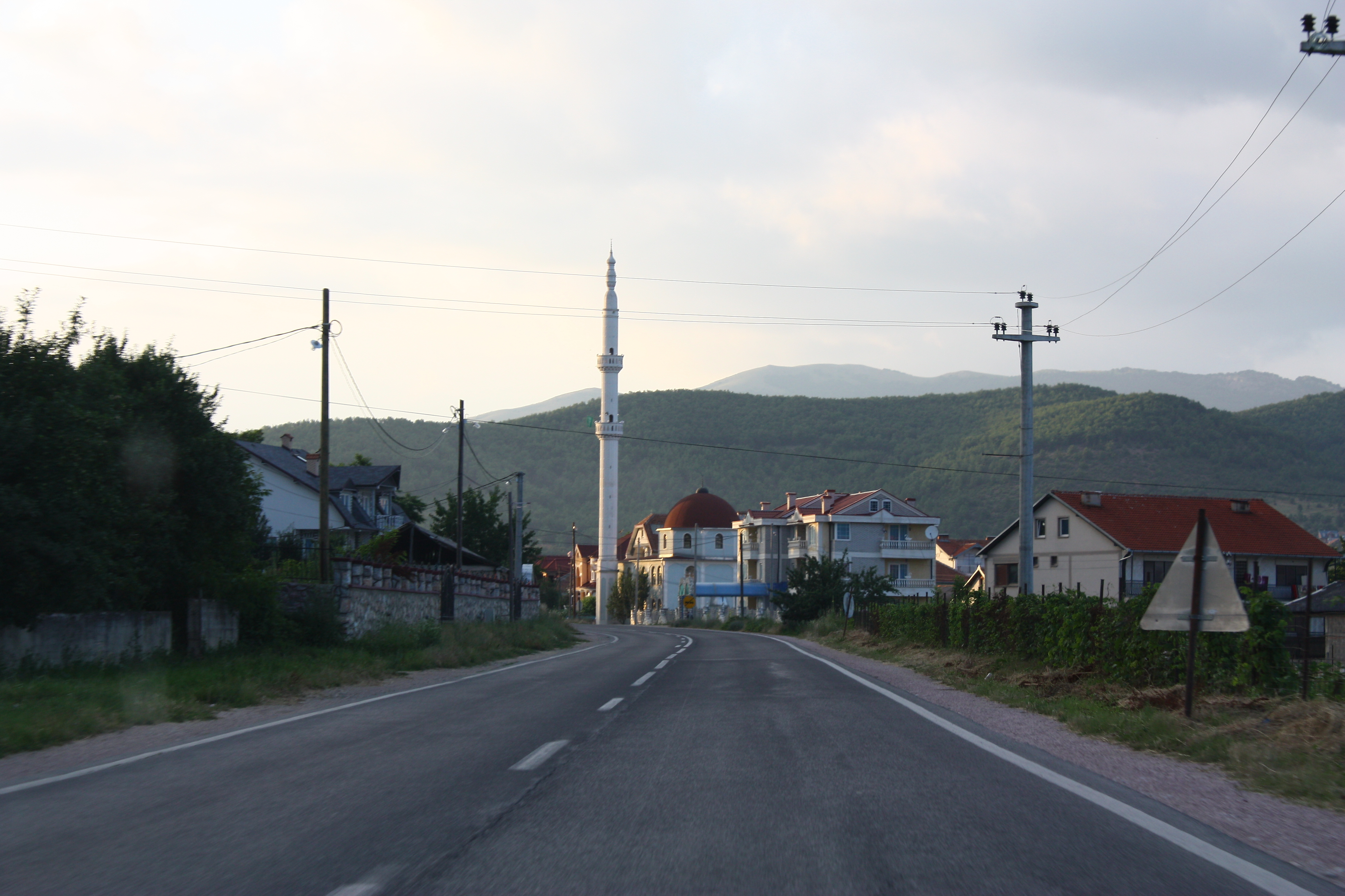 Trapčin Dol, Macedonia